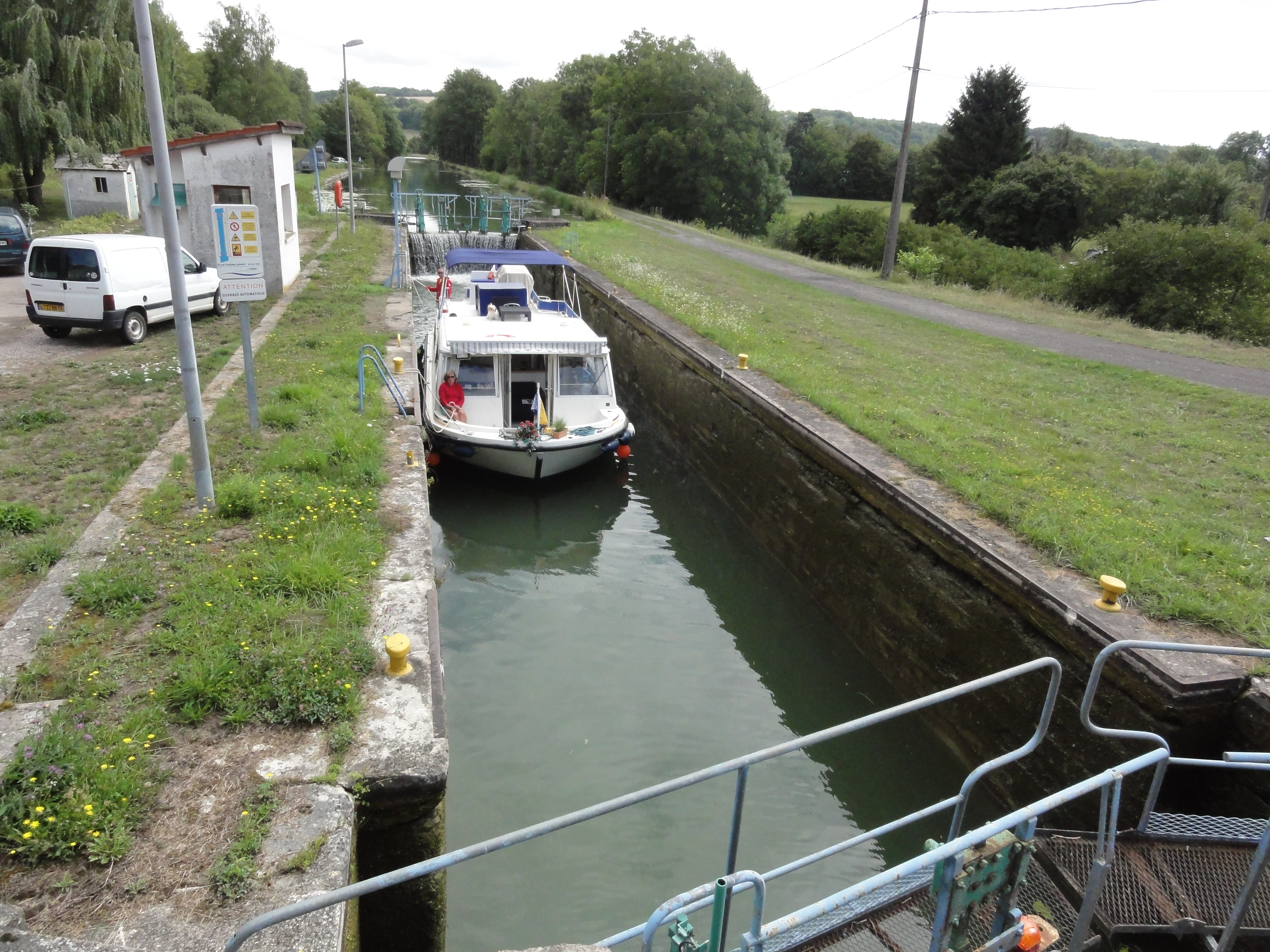 Naix-aux-Forges (Meuse) Canal de la Marne au Rhin, écluse nr 15